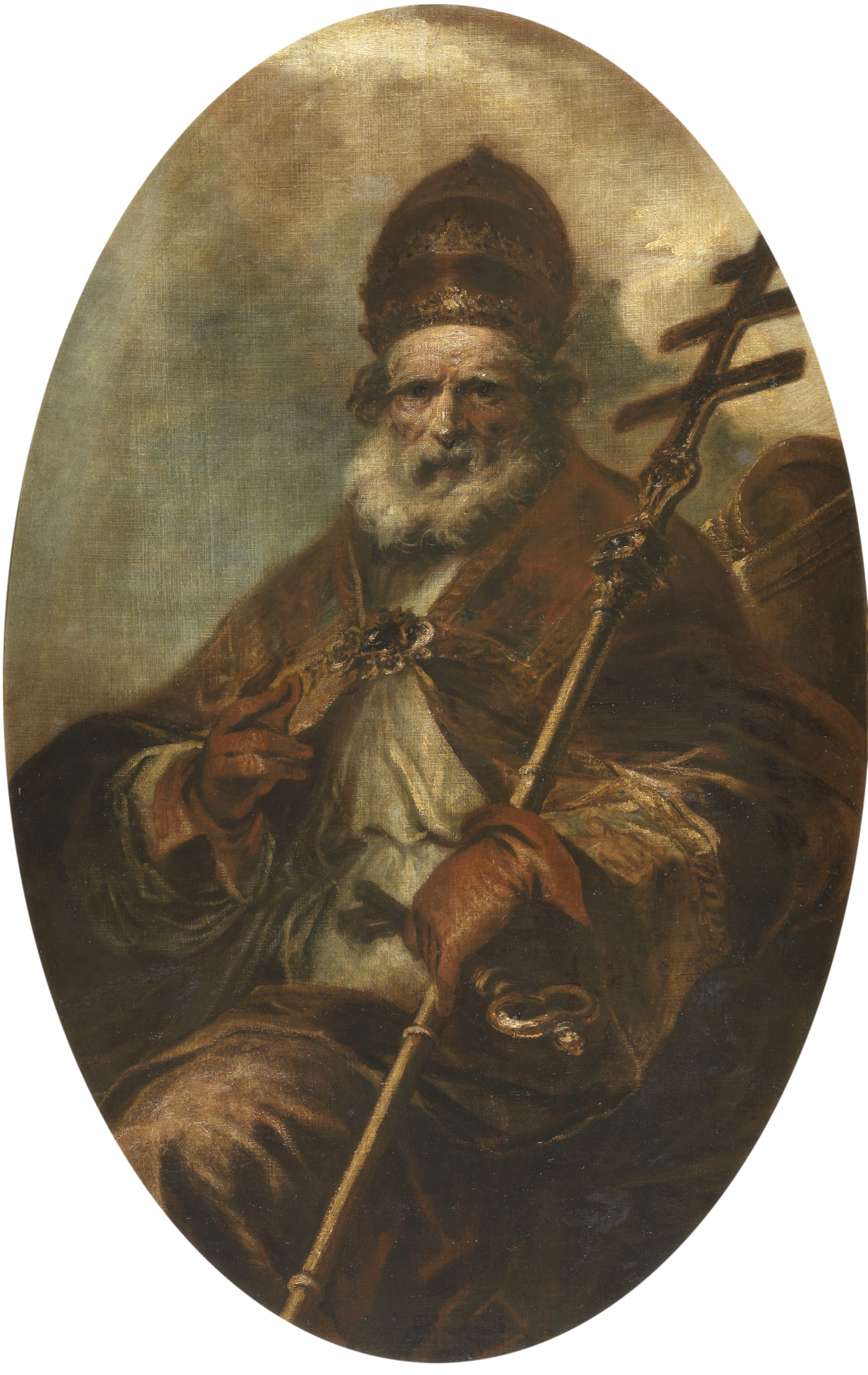 Francisco de Herrera el Mozo (spanish, 1622-1685): Saint Leo Magnus (pope Leo I), Prado Museum, Madrid, Spain